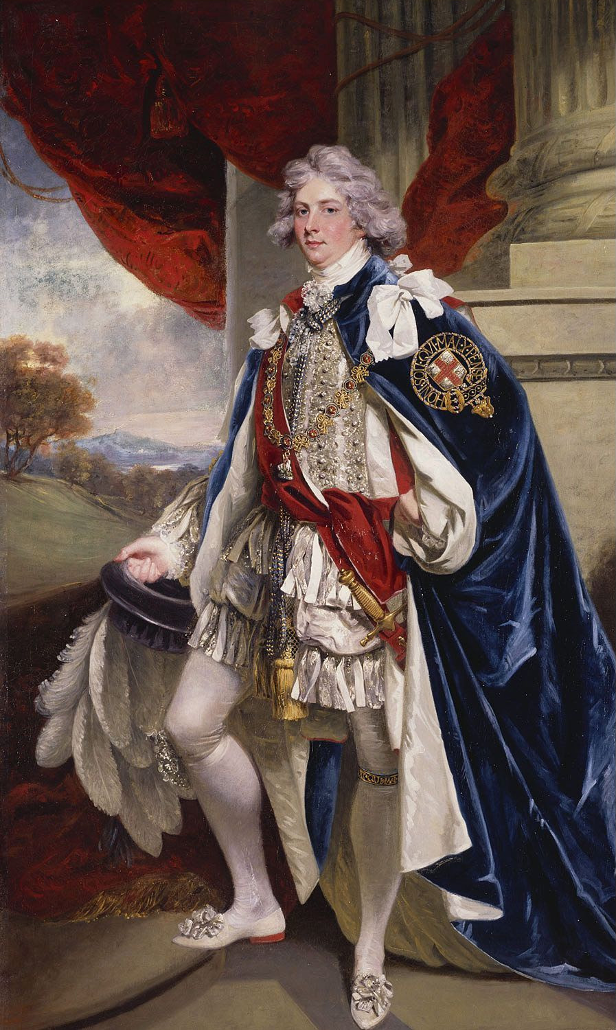 Portrait of George IV, when Prince of Wales